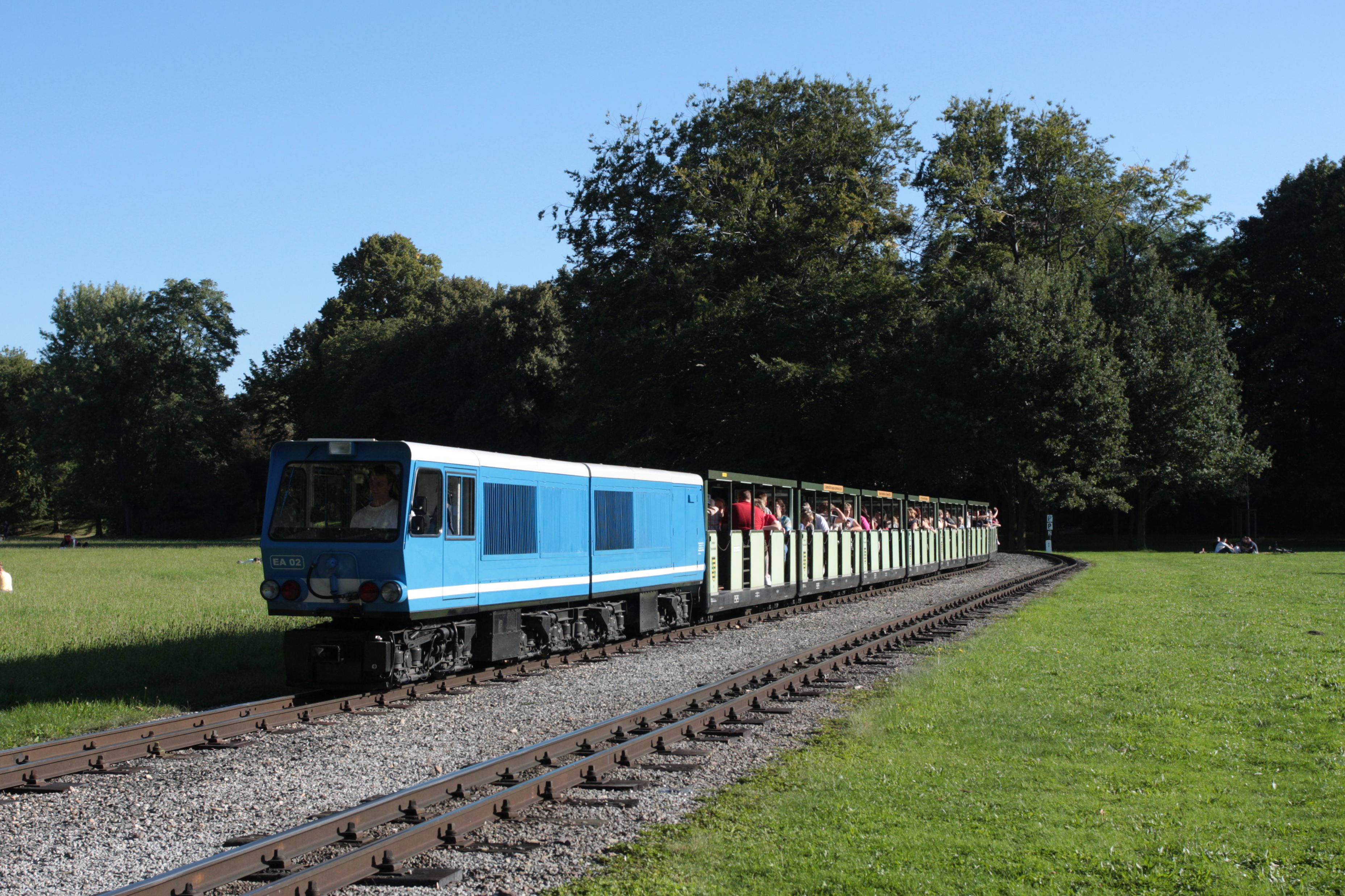 blue engine (Dresden Park Railway)